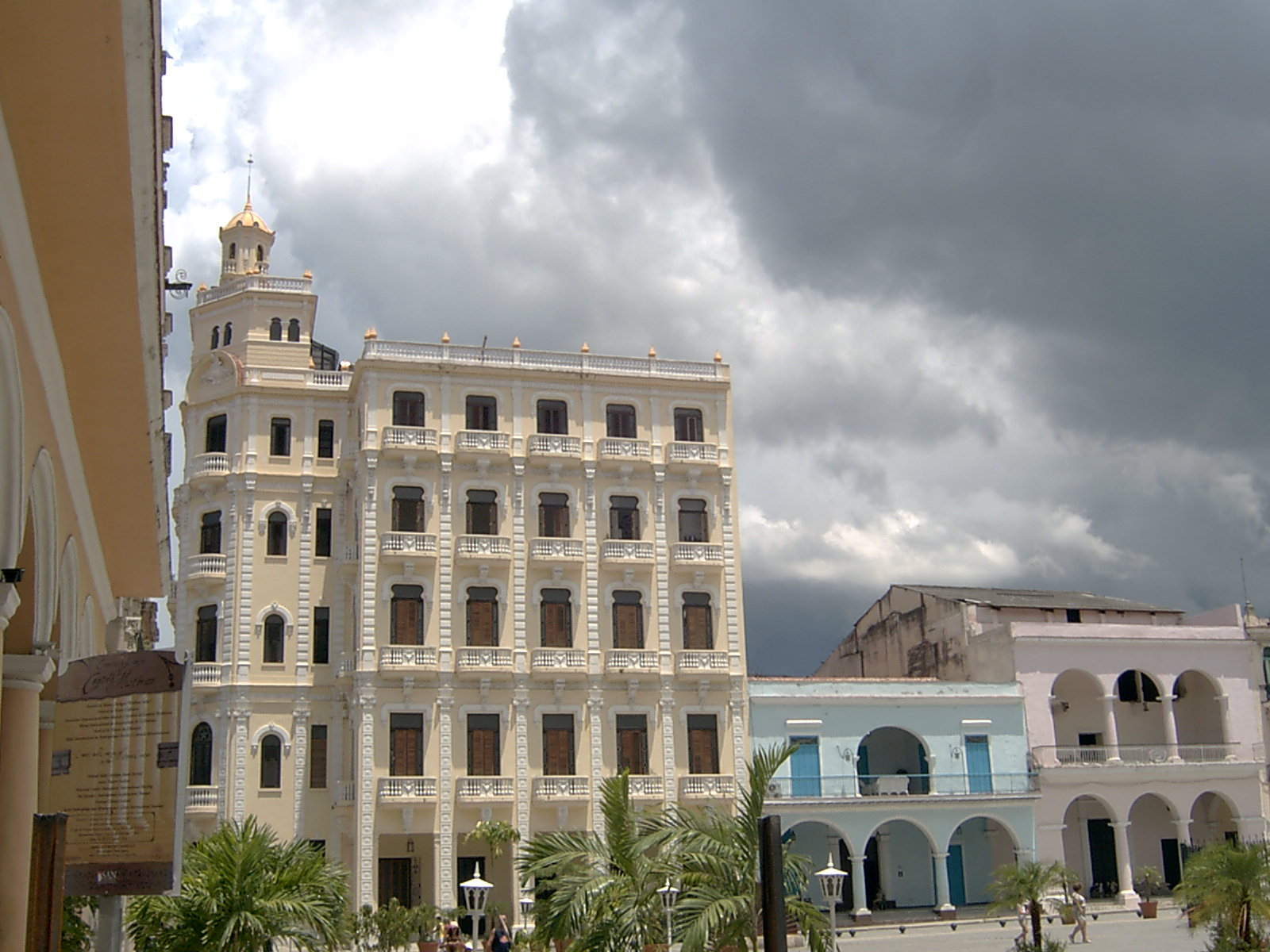 Colonial buildings in Playa Vieja in La Habana, Cuba